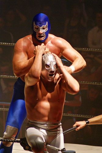 El Hijo De Santo (in front, in the silver costume) vs Blue Demon Jr (behind, in the blue costume), lucha libre